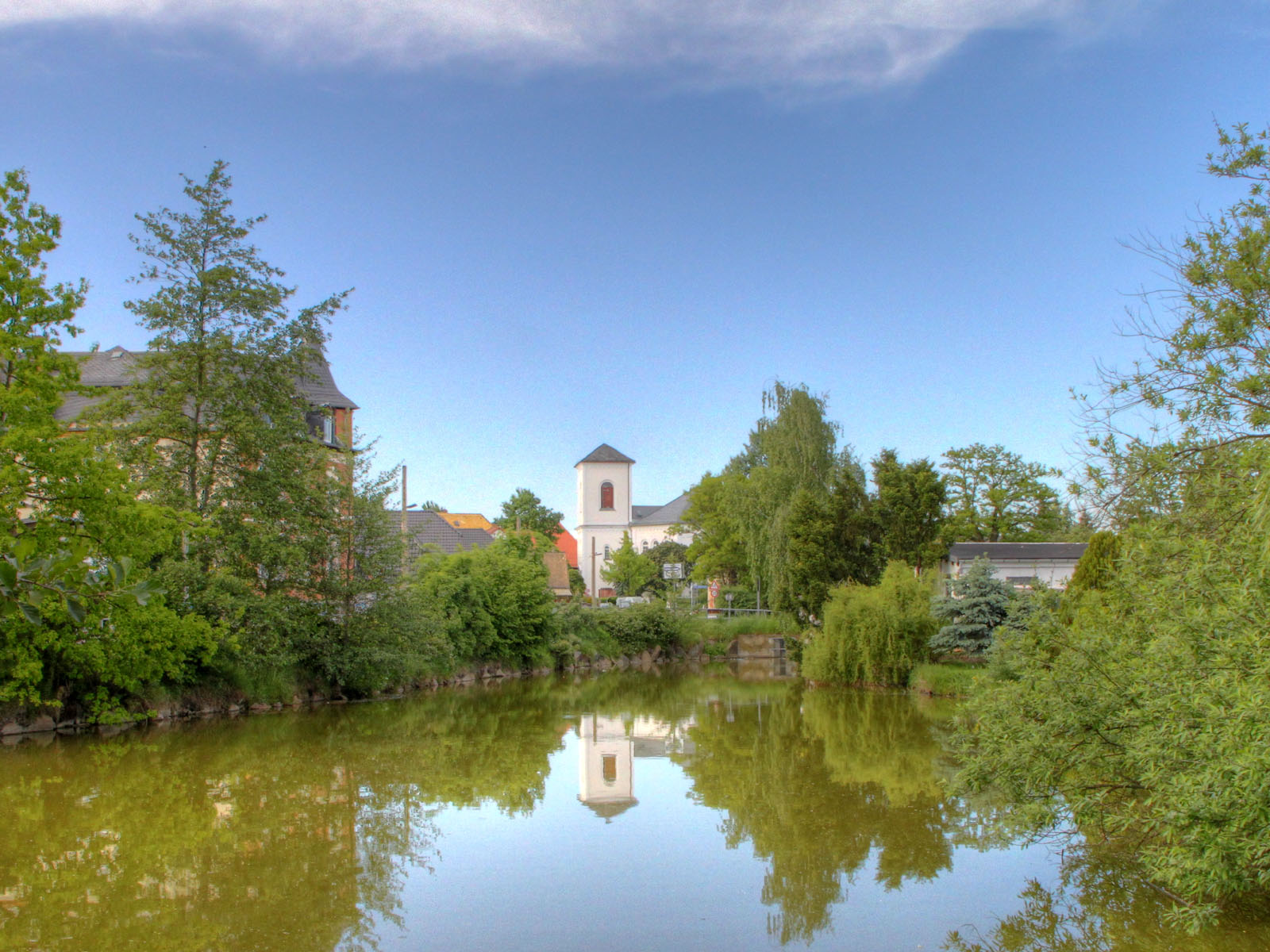 Church to Knauthain over the village pond